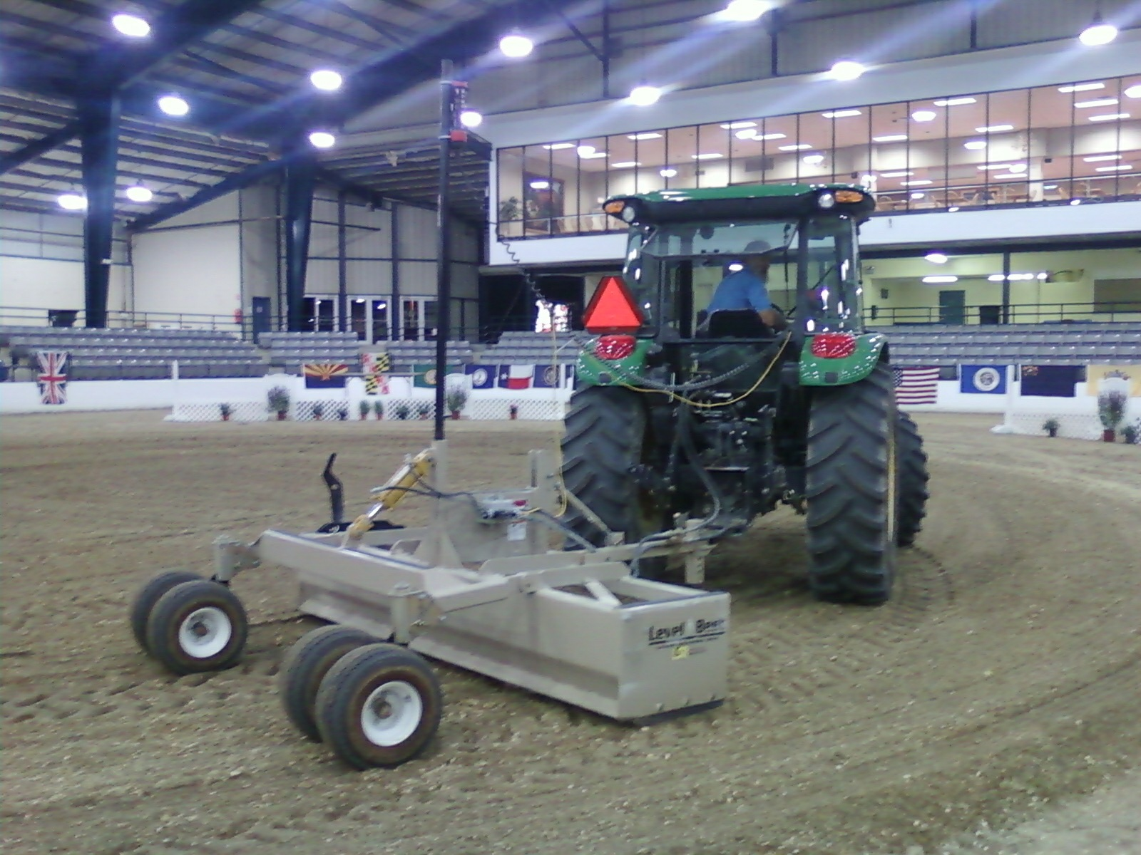 The Covered Arena at Kentucky Horse Park, Lexington, KY, USA. At 2010 World Equestrian Games it will be the venue of the para-equestrian dressage.